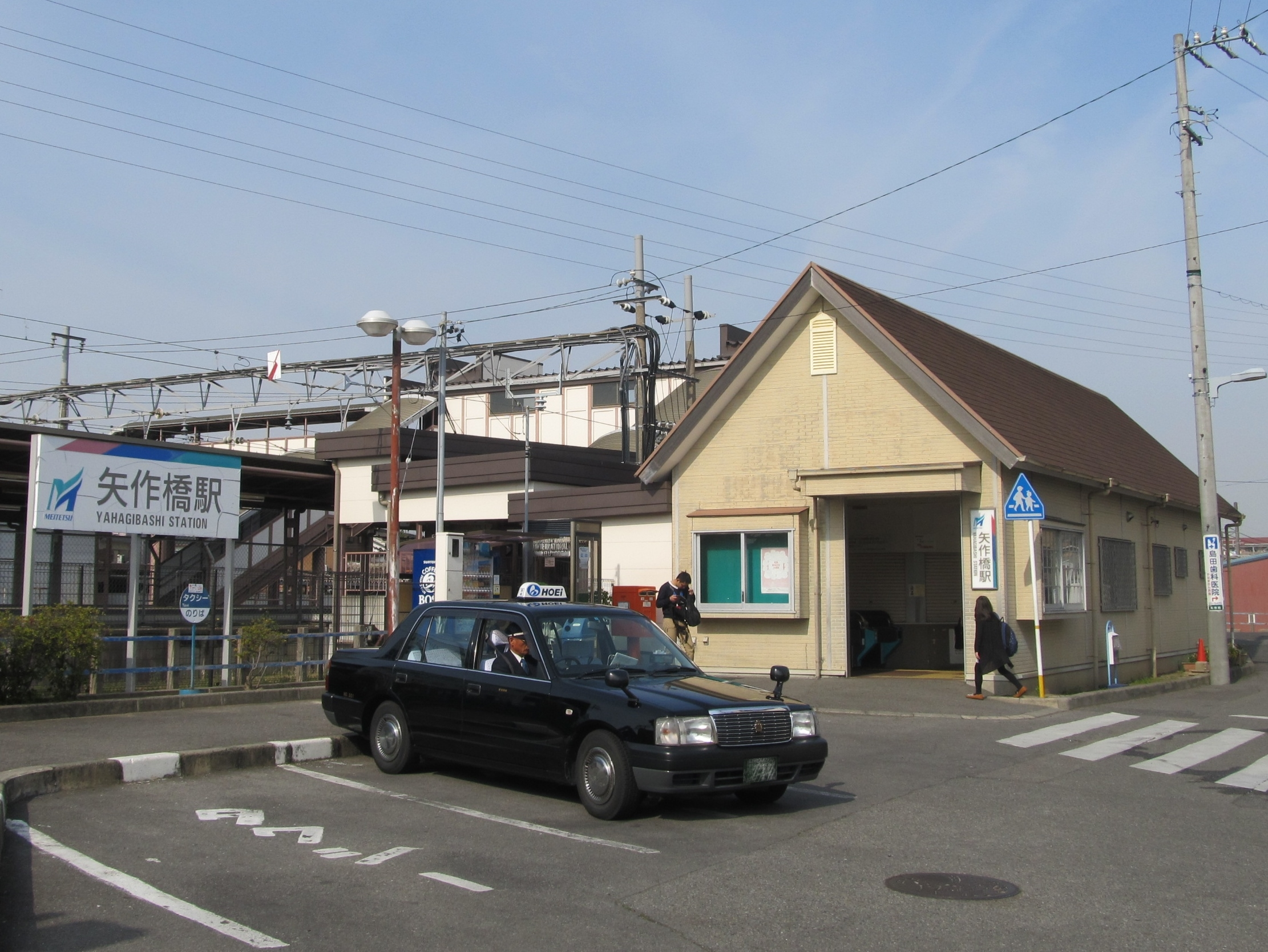 Nagoya Railroad Nagoya Main Line Yahagi-bashi Station North Gate